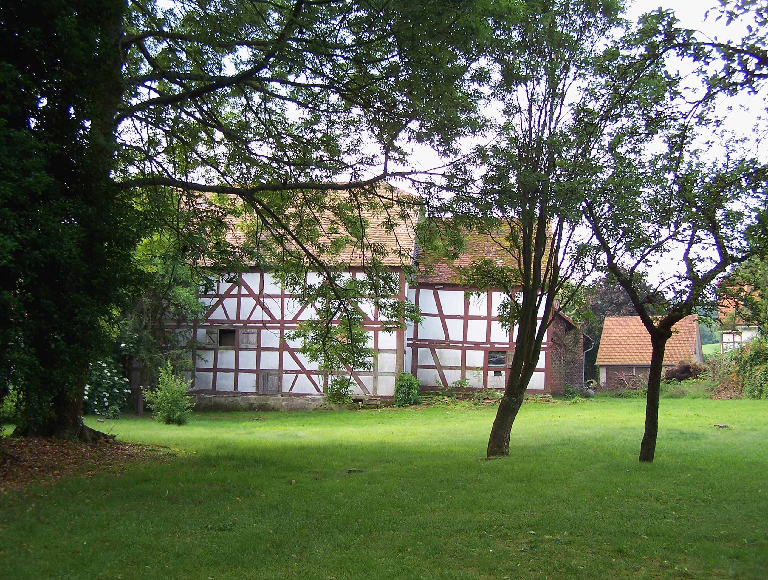 Estate on the area of the late romanesque evangelic Nicholas-Church in Caldern, former monastery church of Cistercian nuns first mentioned in 1235 and monastery church from 1250 until 1527, June 2012